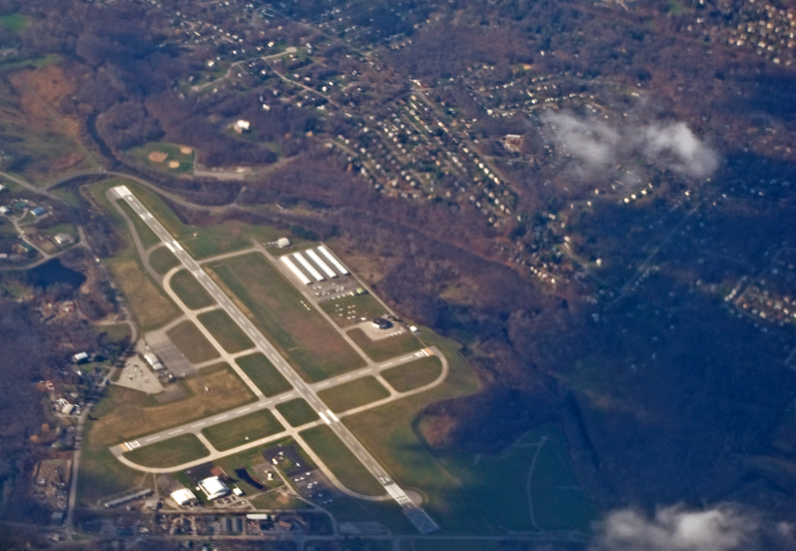 Dutchess County Airport (KPOU) in Wappinger, Dutchess County, New York.